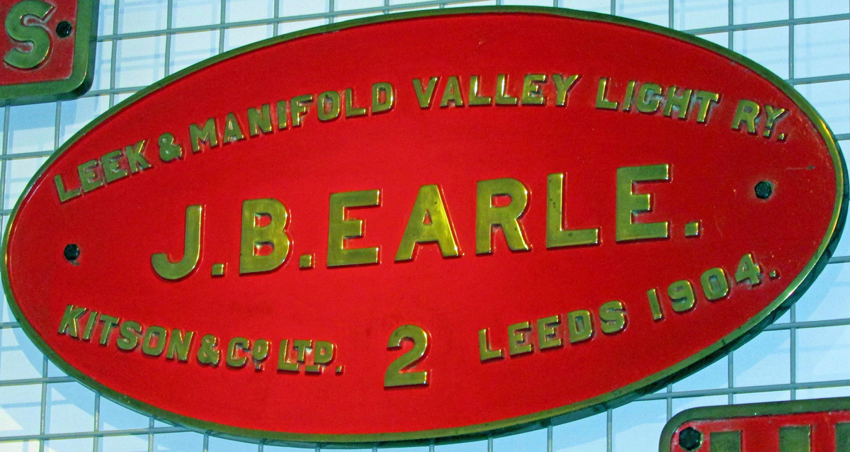 Manufacturers plate from the steam locomotive J.B.Earle No.2 built 1904 of the Leek & Manifold Valley Railway now displayed in the museum at the Talyllyn Railway in Wales